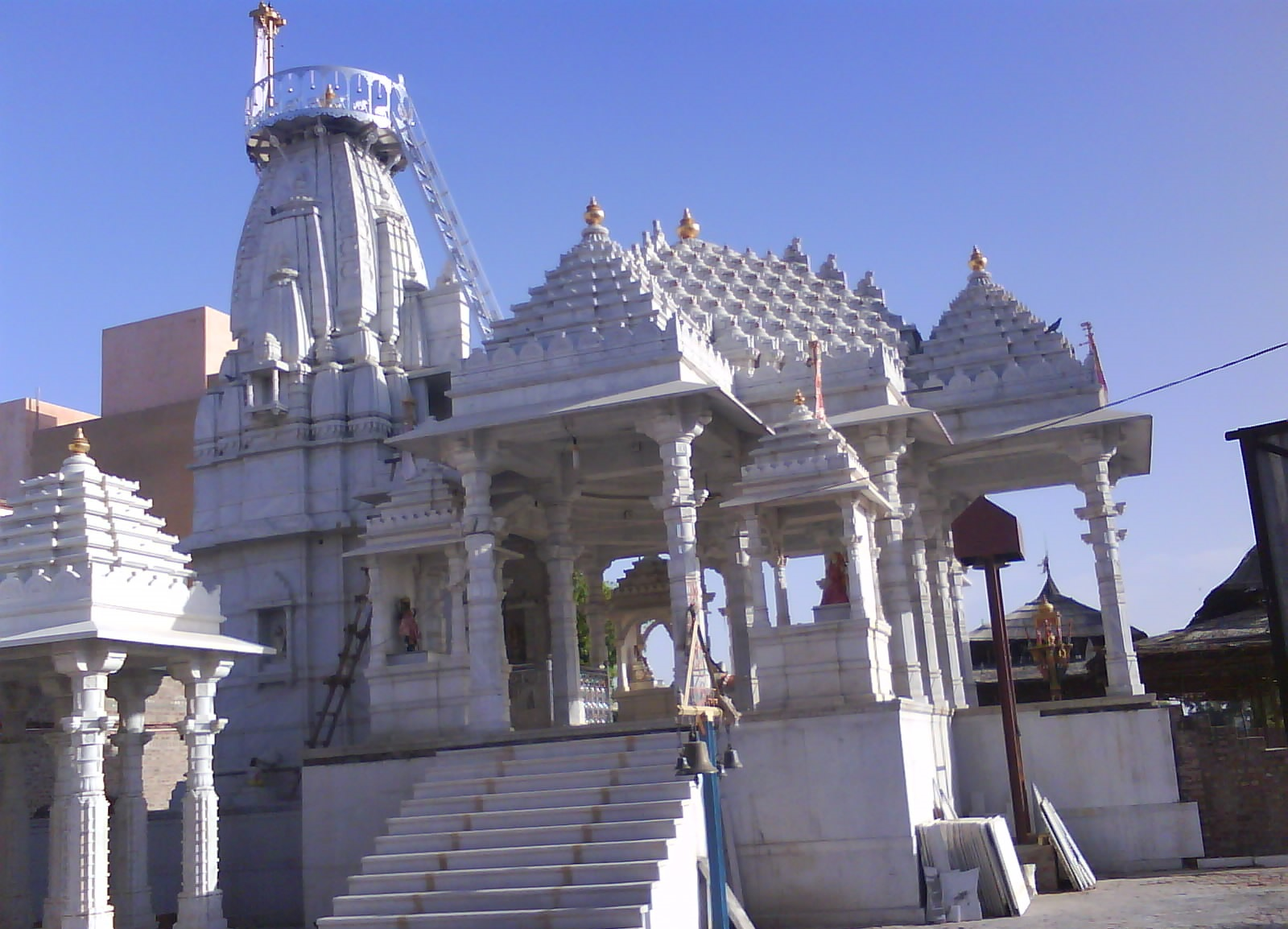 This is Kundeshwar Mahadev temple located near the pond and Pechka of Takhatgarh.